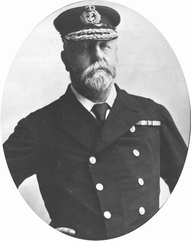 Admiral H F Stephenson photographed in 1896